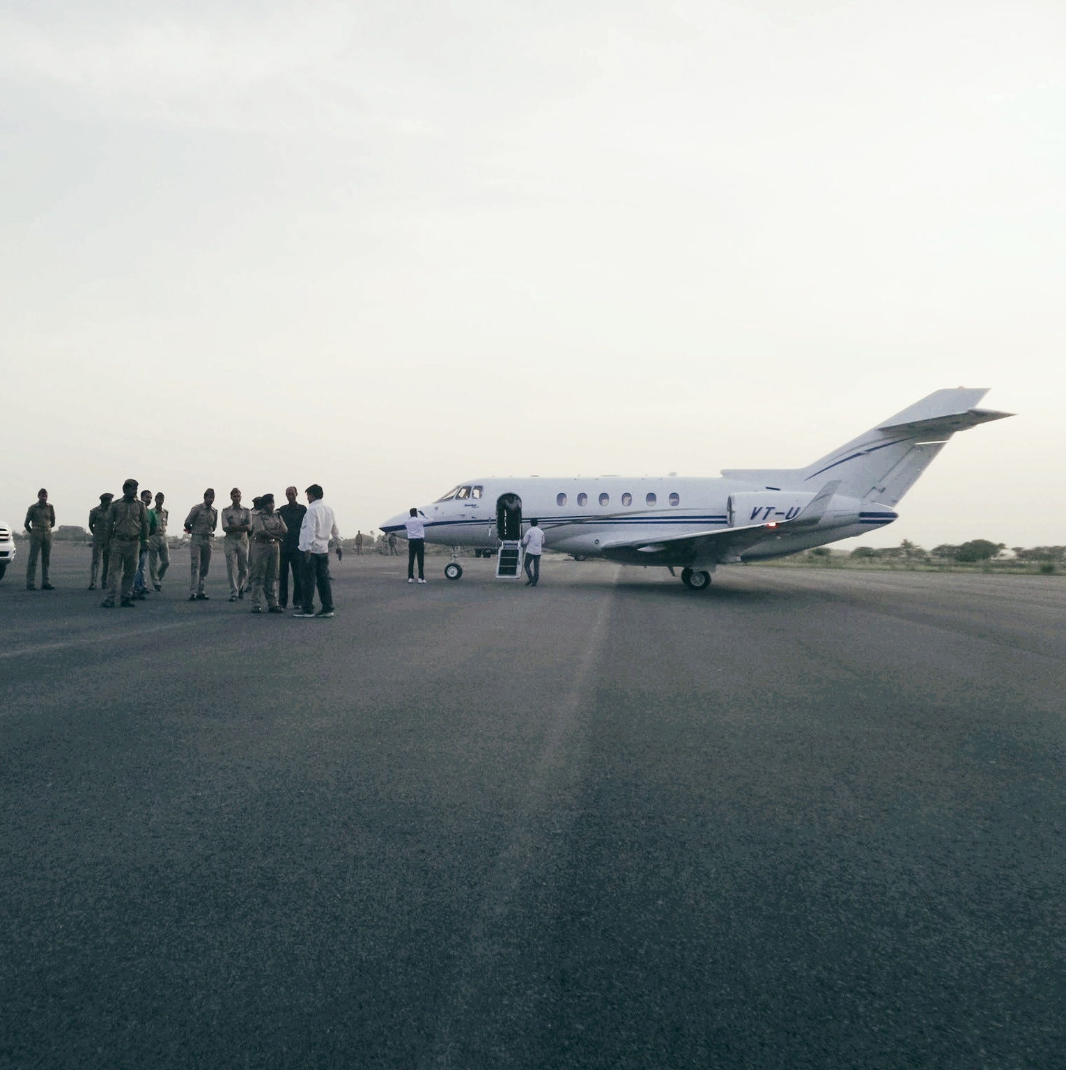 VT-UPM, Hawker 900XP aircraft/airplane of Uttar Pradesh Government at Saifai Airstrip (Etawah Airport) in 2016.